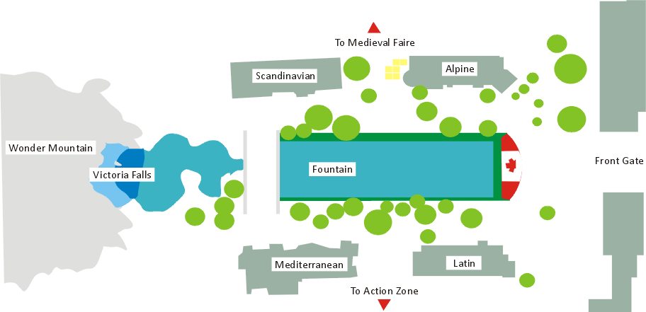 mapfdsfds